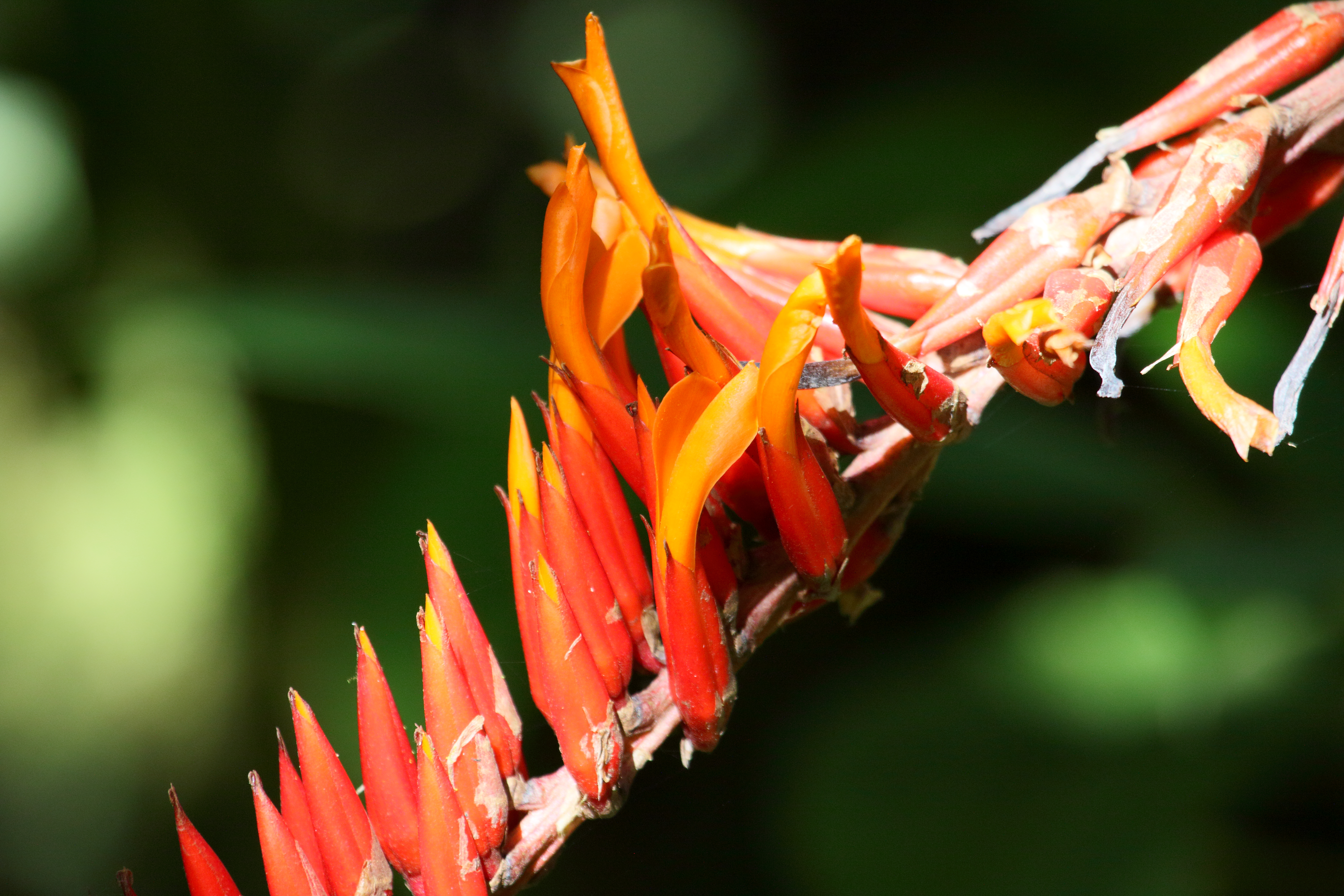 Pitcairnia brittoniana, Monteverde, Costa Rica